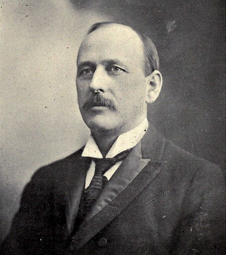 Photograph of Thomas Trueblood